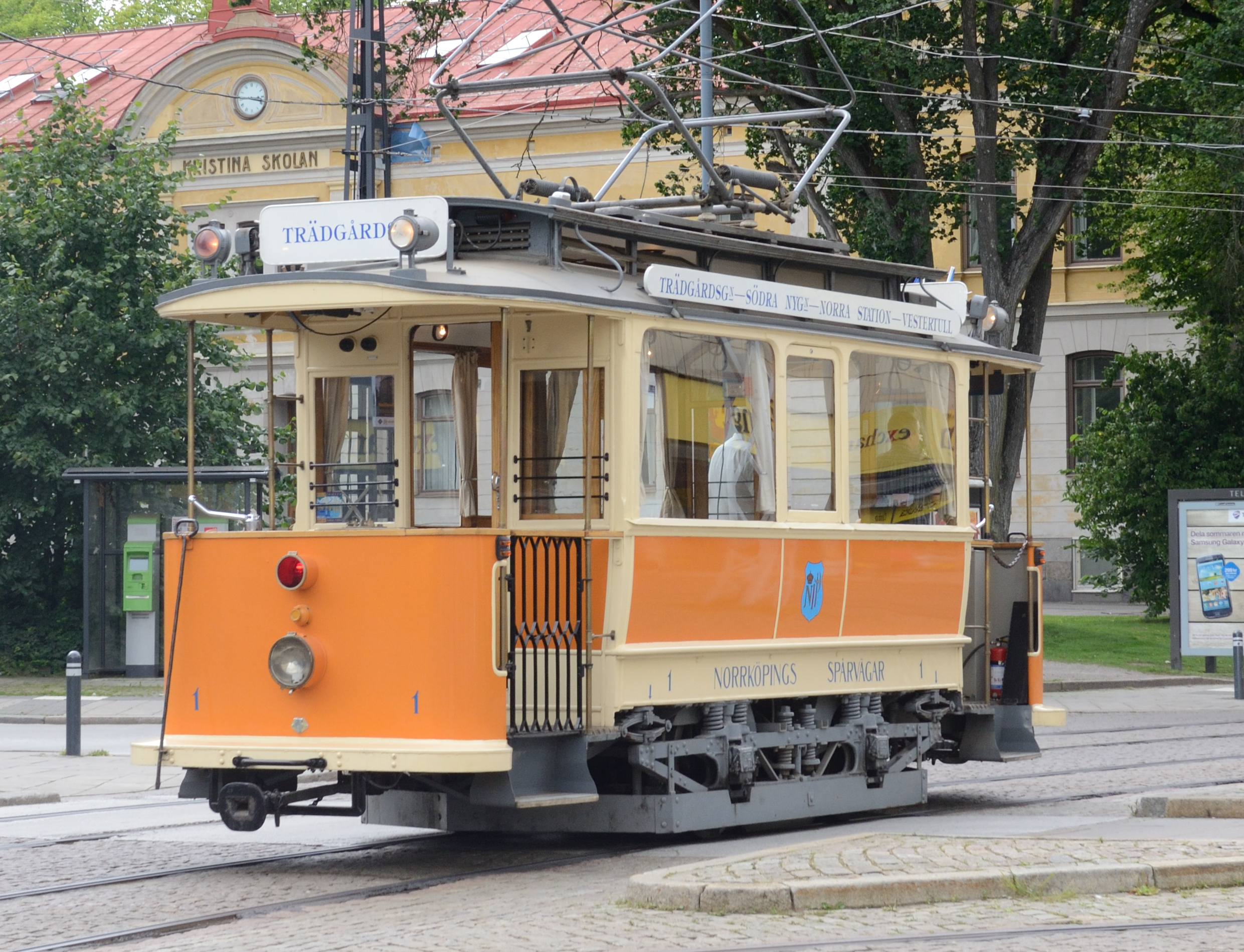 Veteran cable car in Norrköping, Sweden